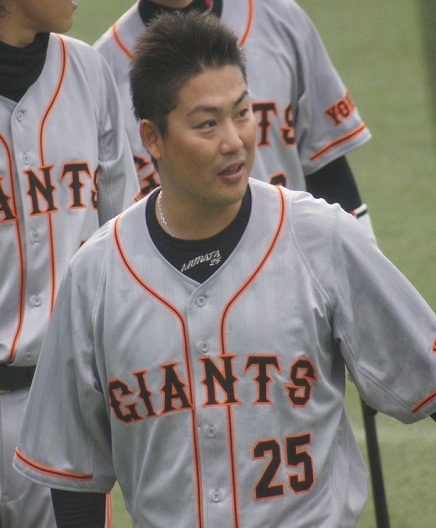 Shuichi Murata, infielder of the Yomiuri Giants.